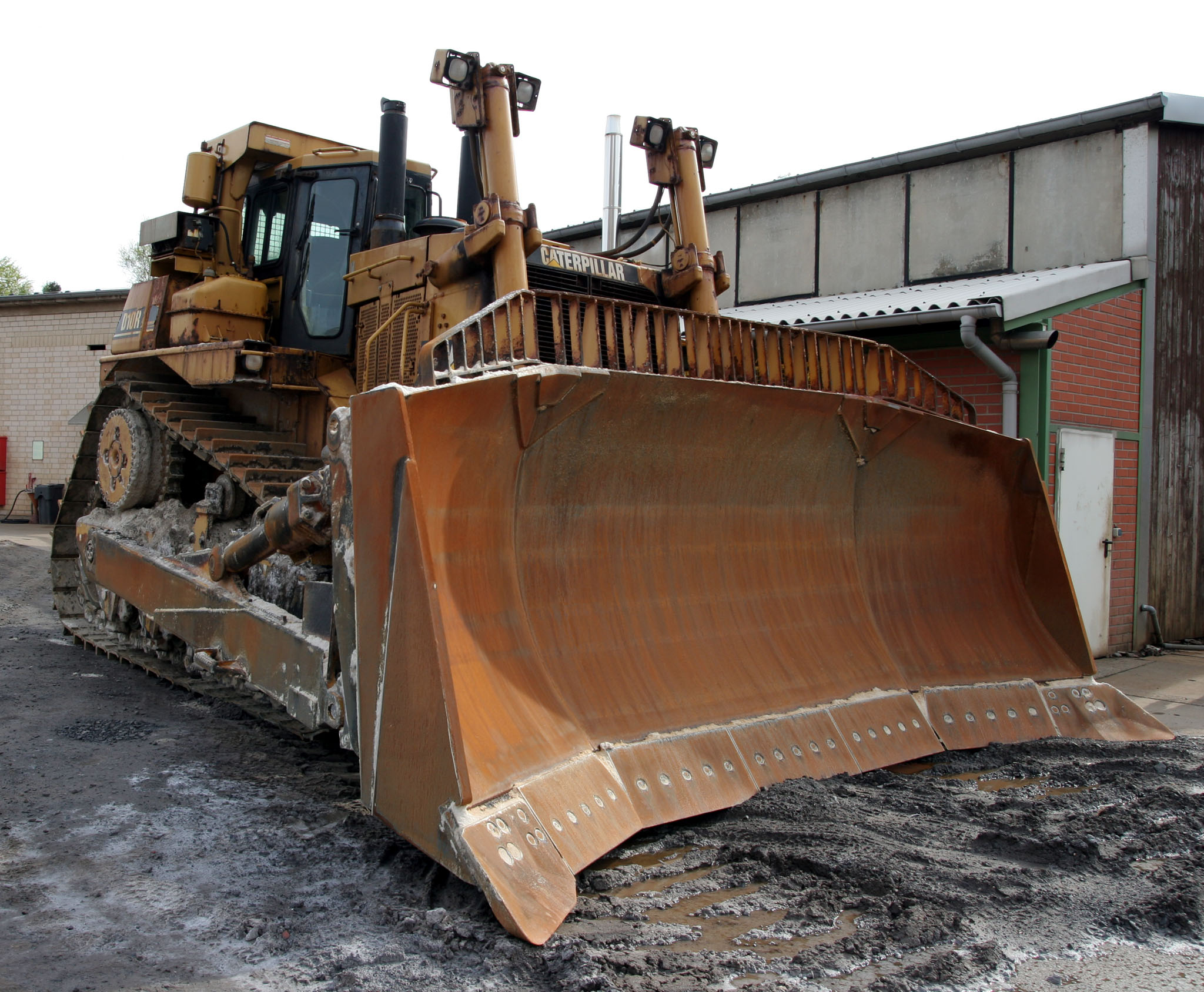 Caterpillar D10R at the basement of Monte Kali.